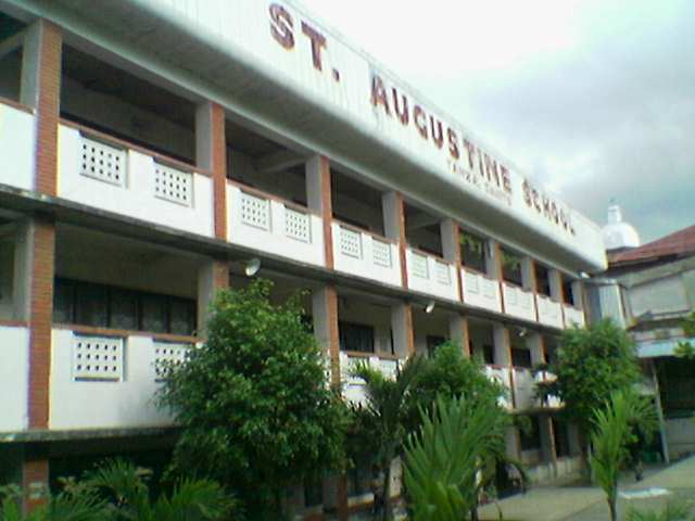 High School building of Saint Augustine School - Tanza Cavite